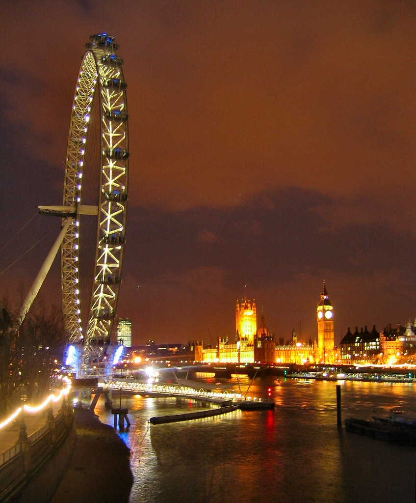 London Eye and Palace of Westminster, from Hungerford Bridge Date: 18th March 2004 19:59 5 sec. 8 Photograph: ed g2s • talk